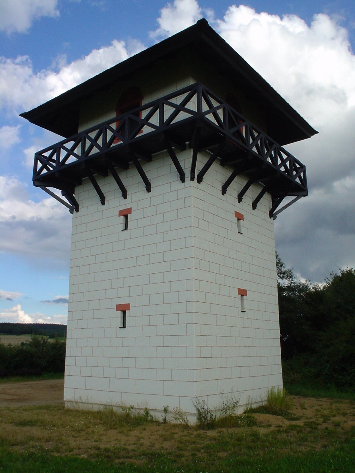 Reconstructed Watchtower (Römischer Wachturm)of the Roman upper germanic limes, near Idstein in Taunus